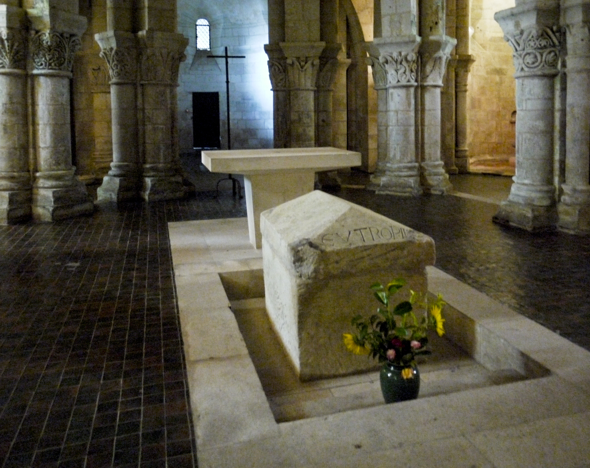 Crypt at Basilique Saint-Eutrope de Saintes, Saintes, France. Cenotaph